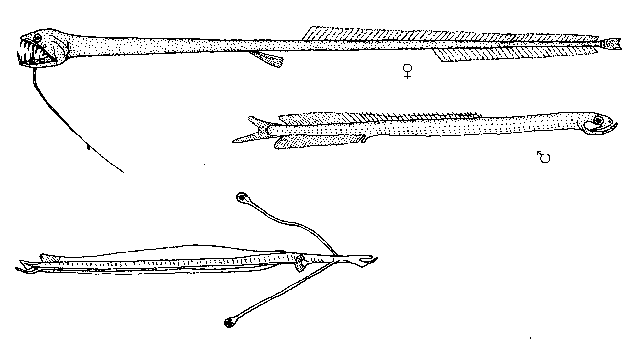 Idiacanthus atlanticus (no common name)